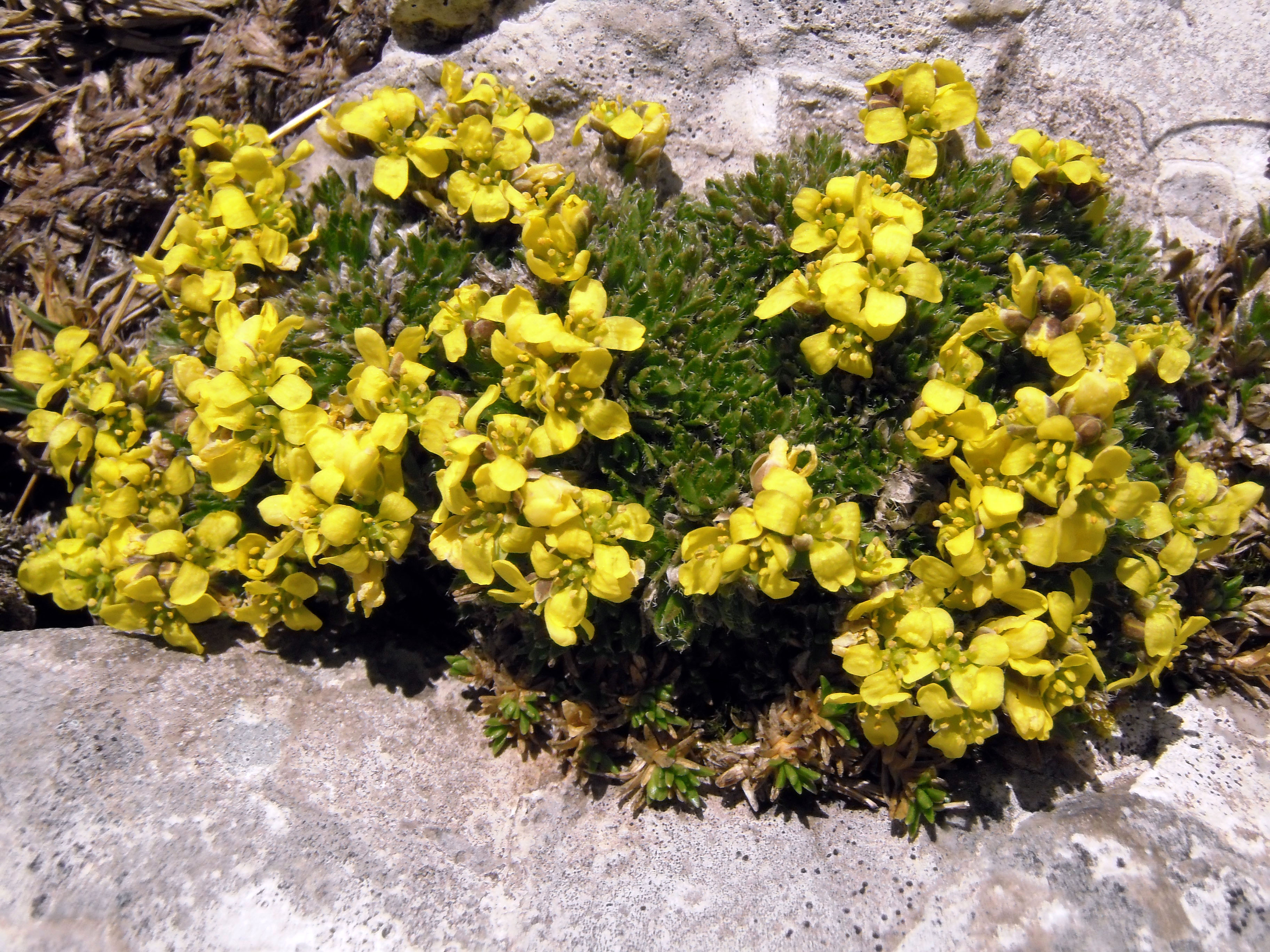 Draba sauteri, Warscheneck ~2380m, Austria